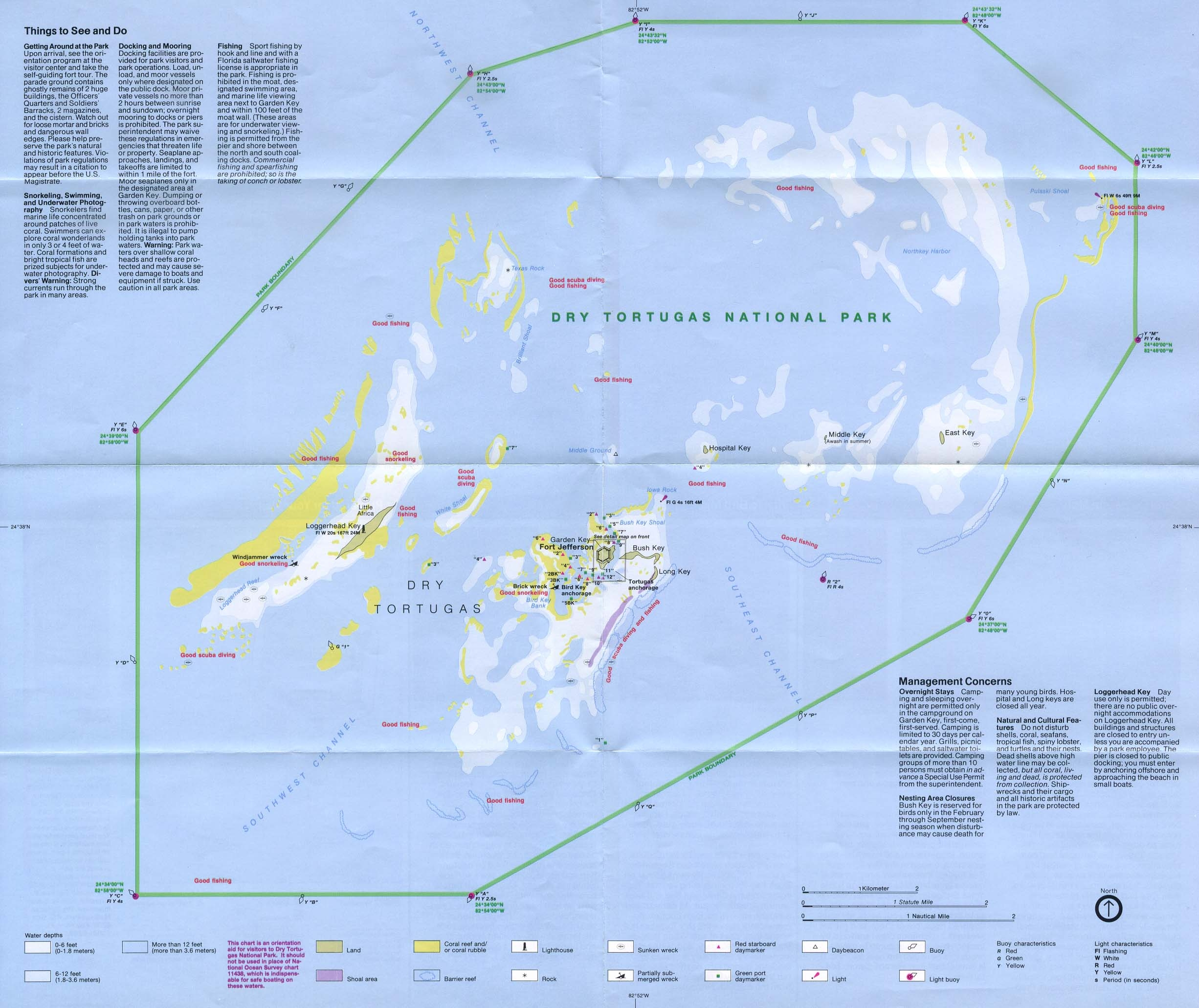 Map of Dry Tortugas National Park, Florida